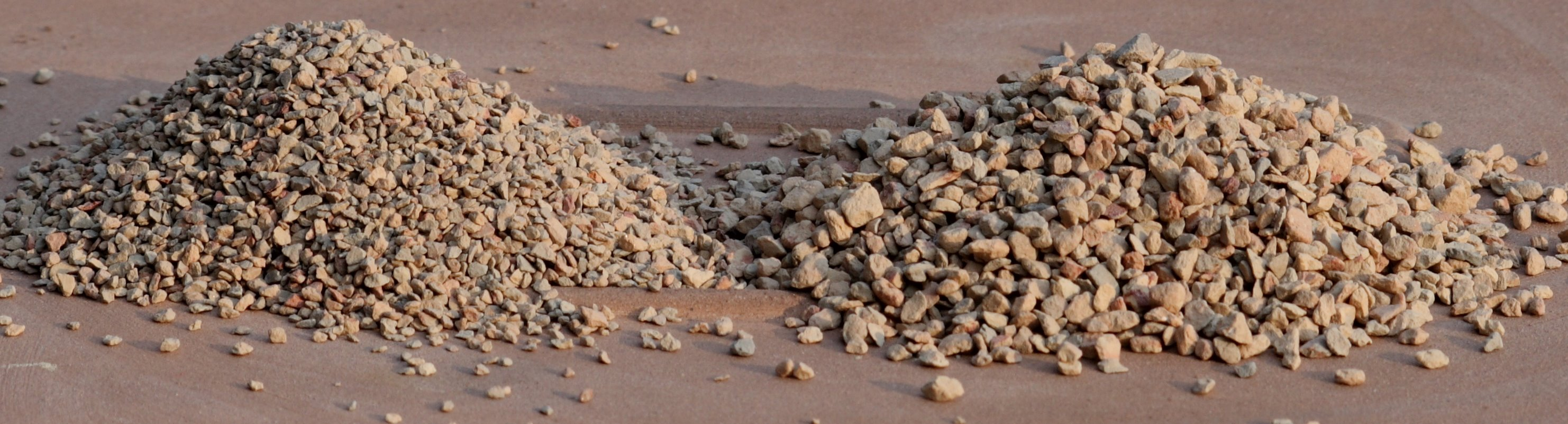 Large and small grains of arcillite (calcined montmorillonite clay), sifted from Schultz Aquatic Plant Soil for use as bonsai soil.